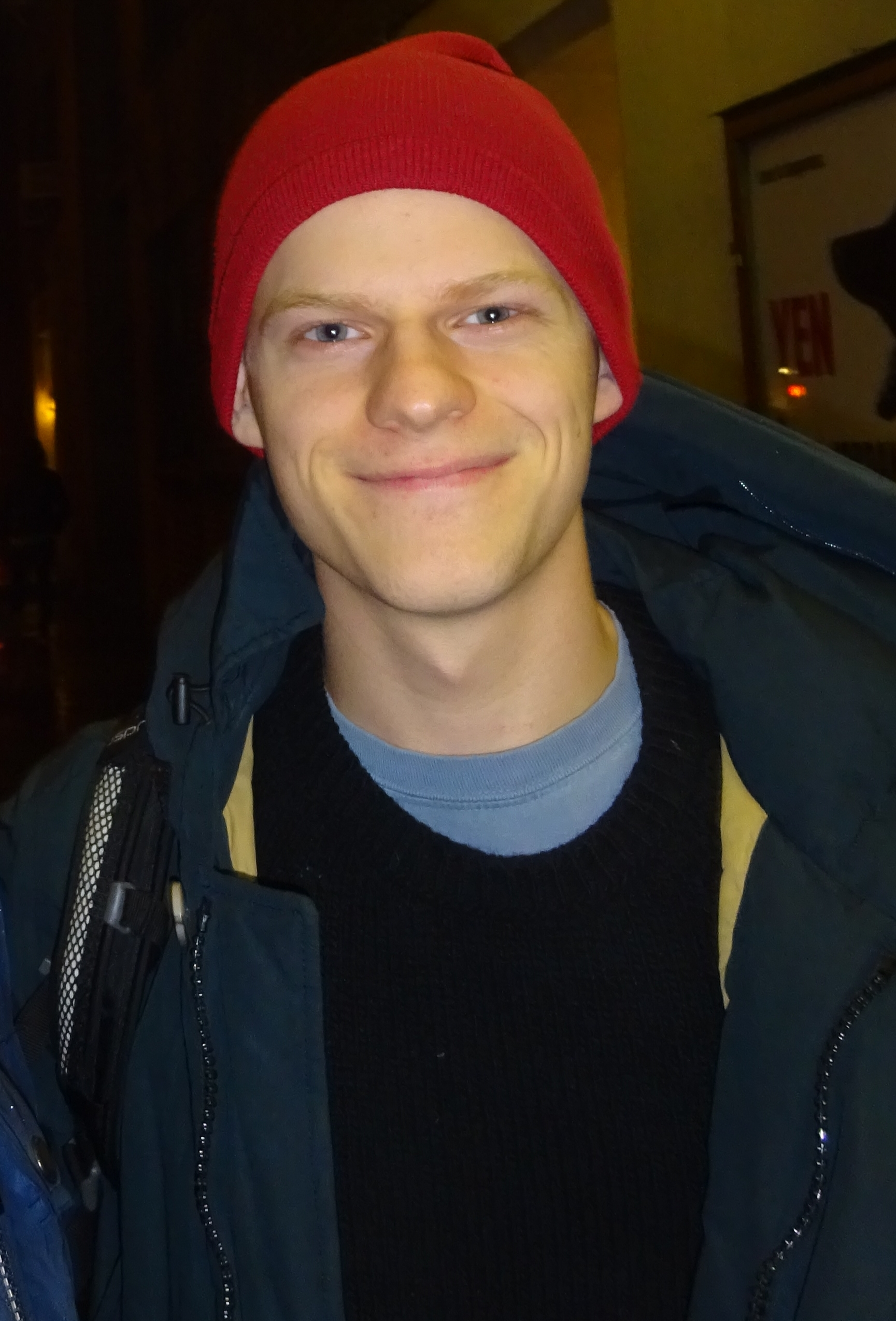 Lucas Hedges in New York, 2017